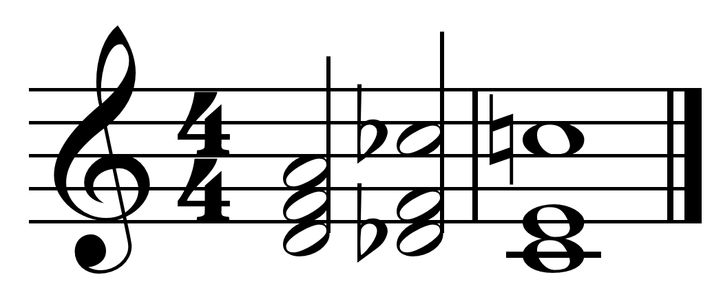 Tritone substitution ii-subV7-I in C turnaround with a tritone substitution: ii-♭II7-I. Created by Hyacinth (talk) 19:25, 13 December 2010 in Sibelius.